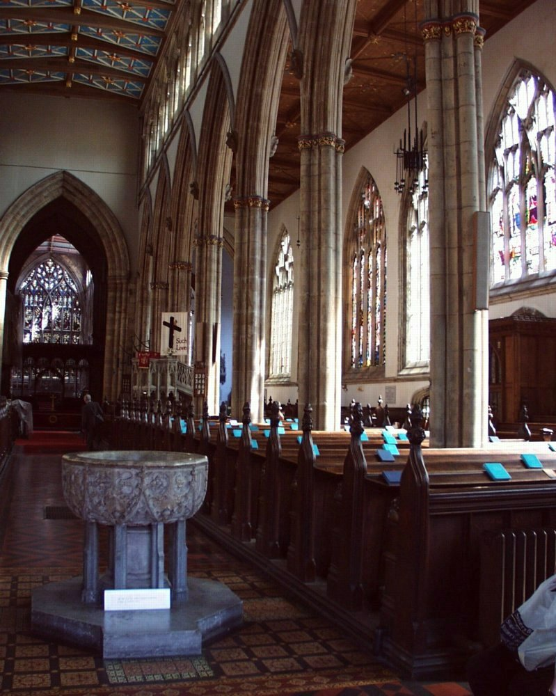 Photo of Holy Trinity Church - Hull